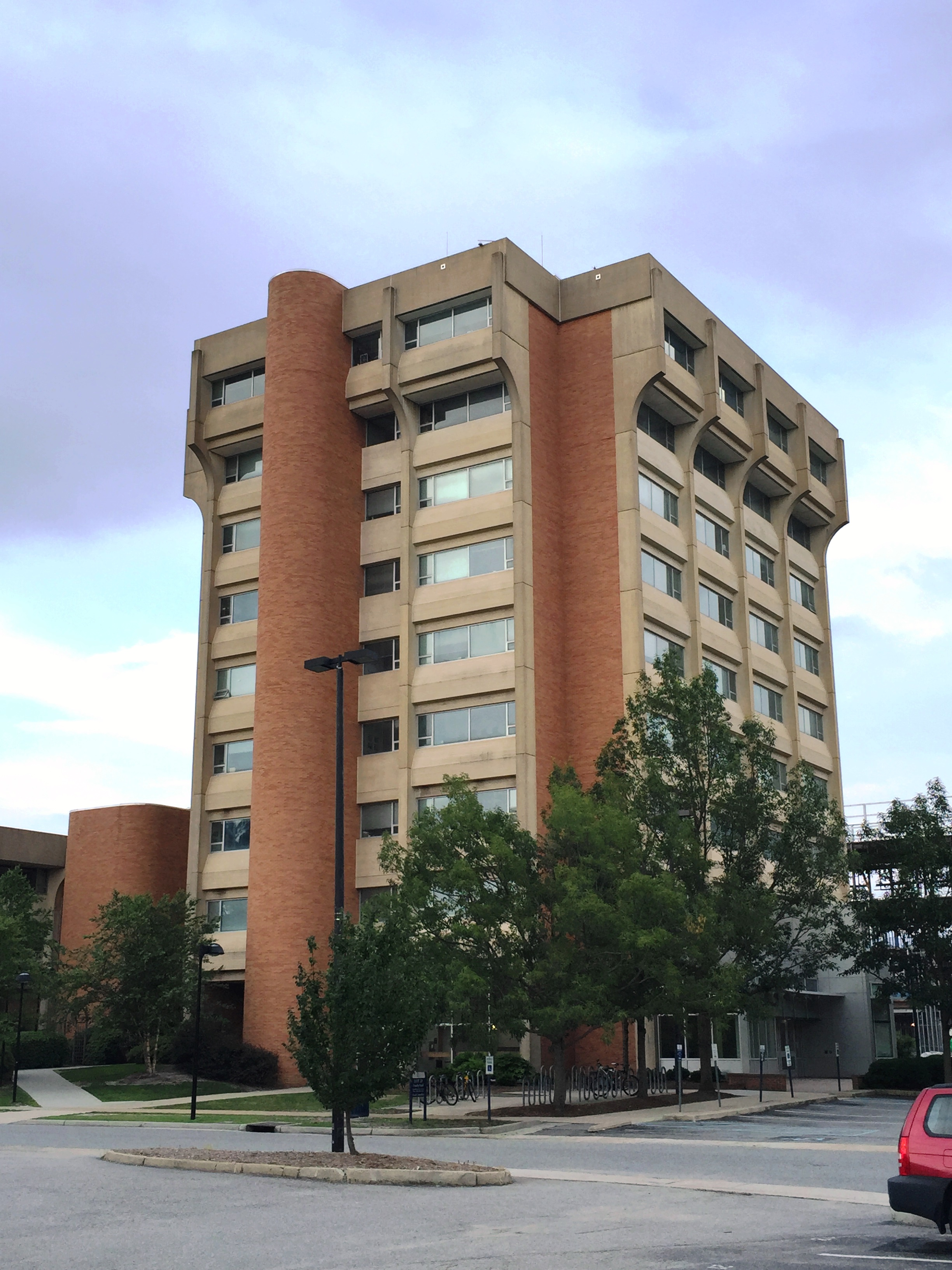 B.A.L is the tallest building on campus